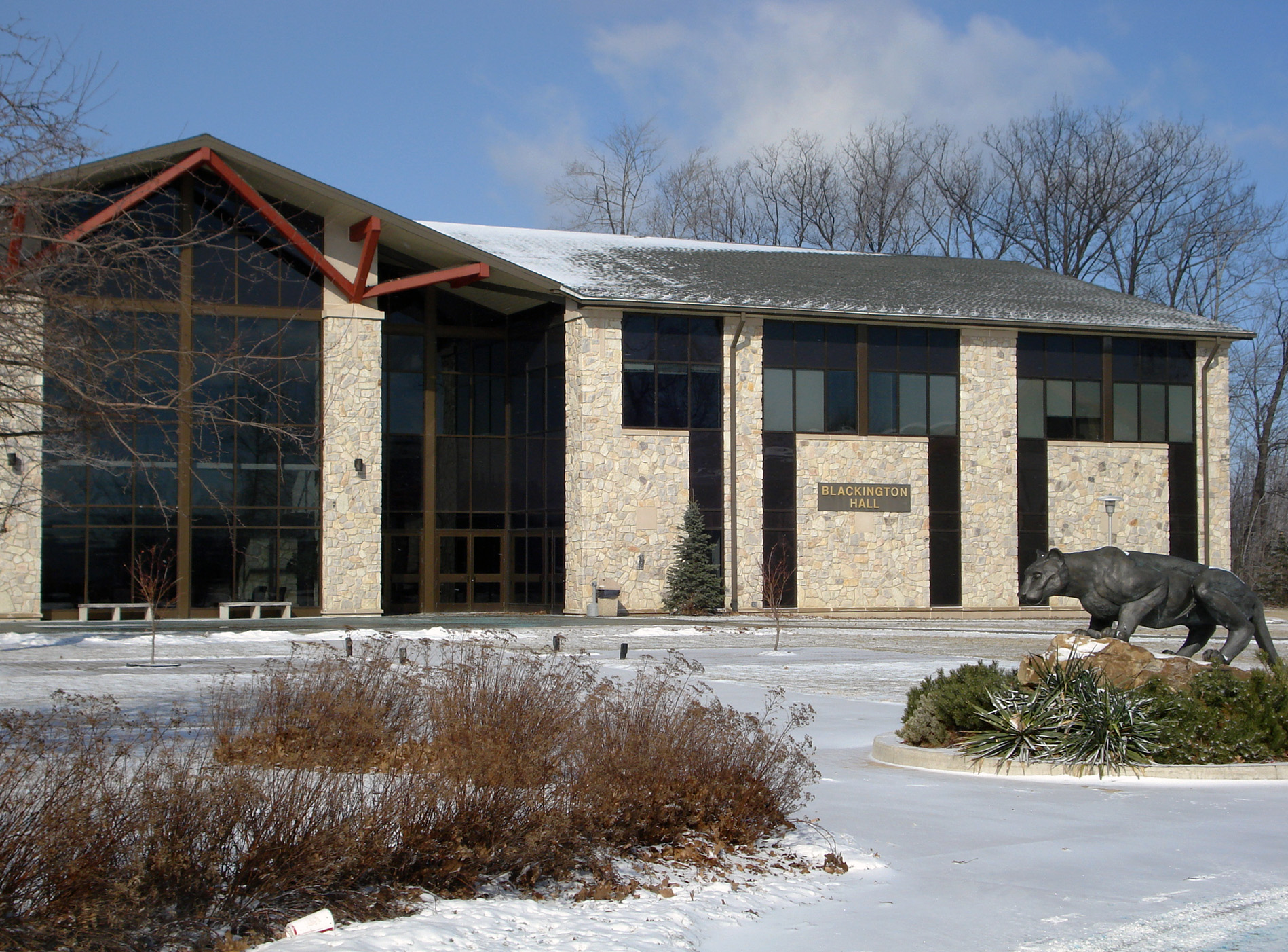 Blackington Hall and the Mountain Cat statue at the University of Pittsburgh at Johnstown